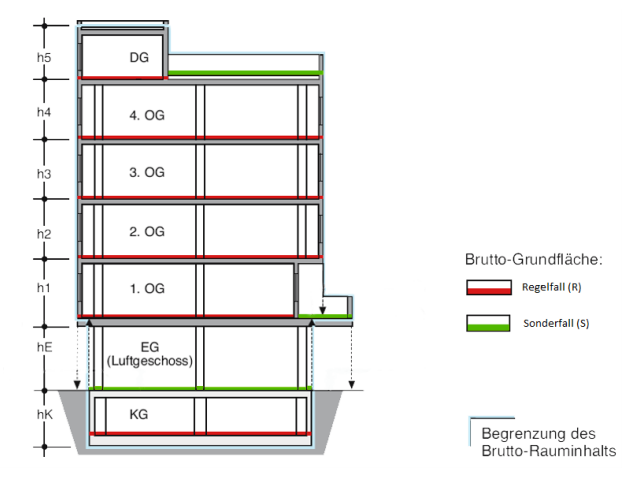 Regelfall Sonderfall BGF Ermittlung in Gebäudeansicht